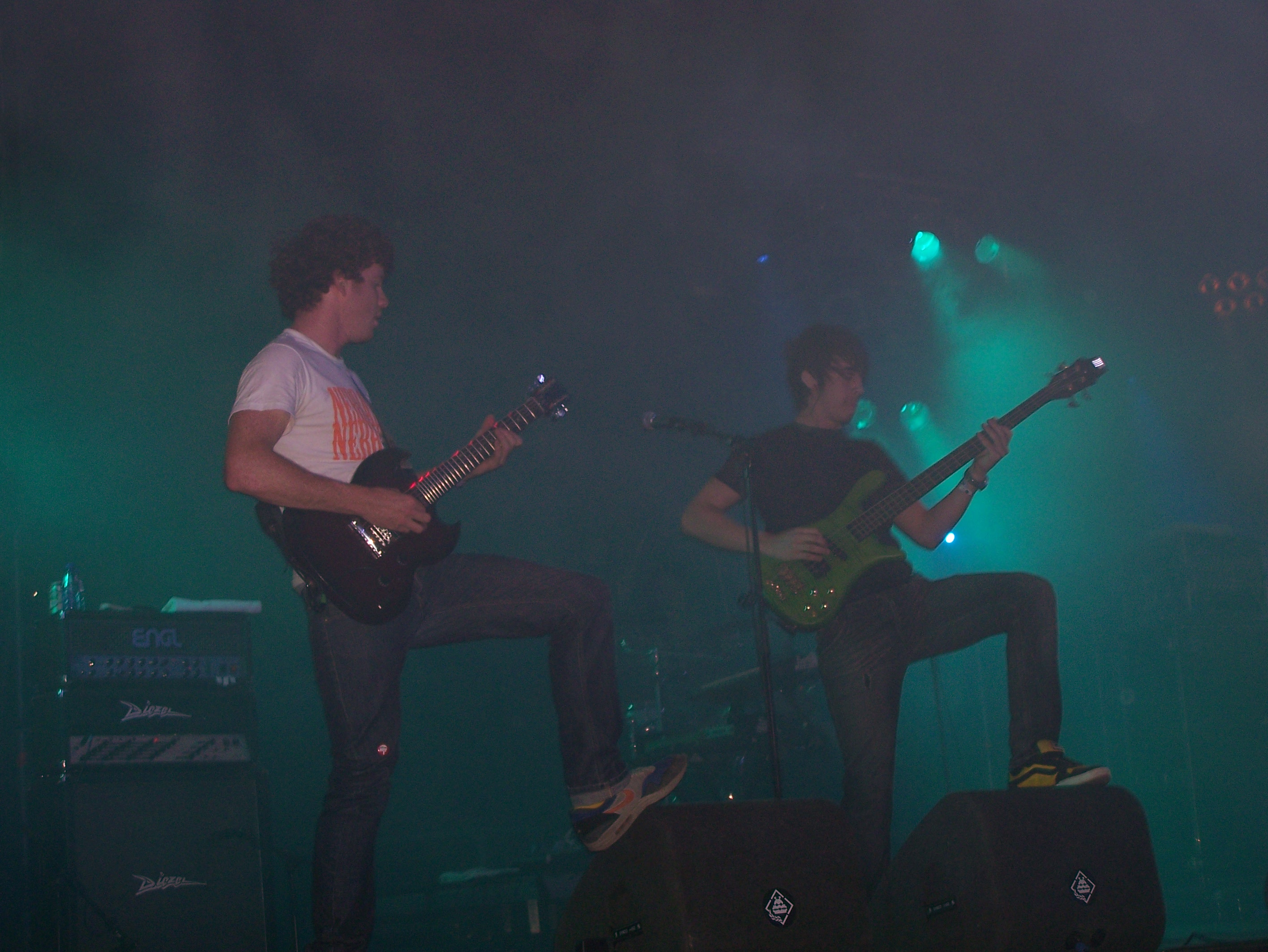 British band Enter Shikari members Chris and Rory..